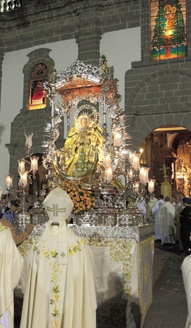 La Virgen del Pino en el Dia de las Marías